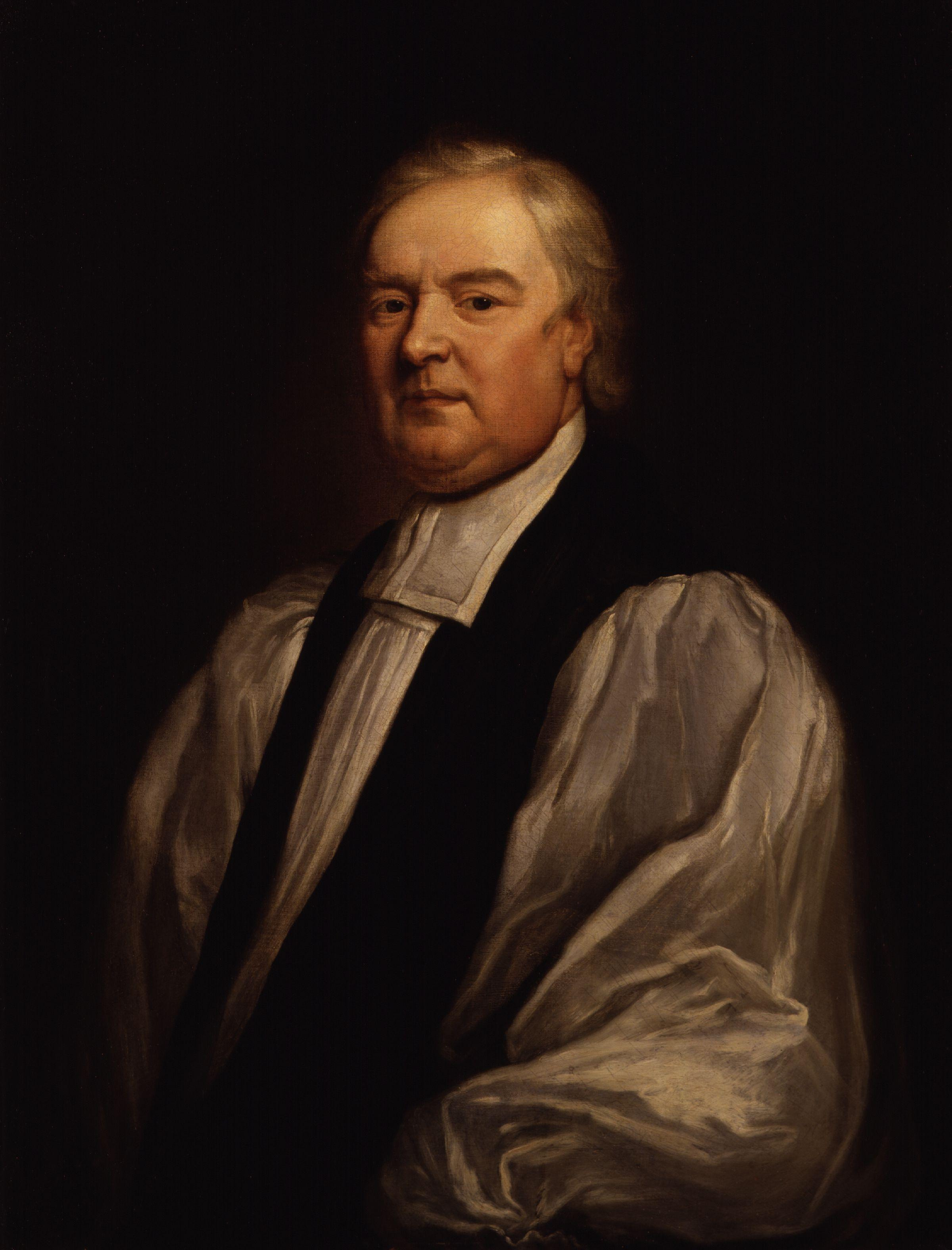 John Tillotson, after Sir Godfrey Kneller, Bt (died 1723). All images in this batch have been confirmed as author died before 1939 according to the official death date listed by the NPG.